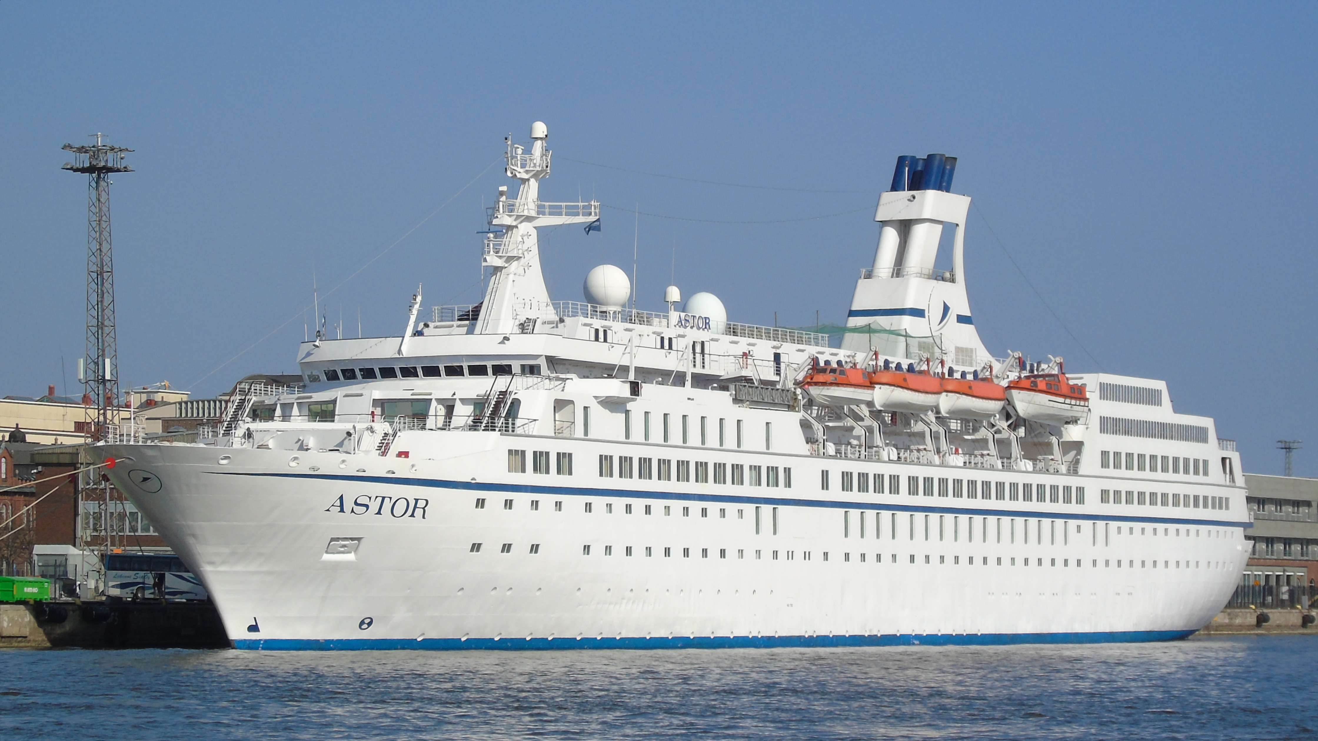 Cruise ship MS Astor at Helsinki Katajanokka 27.4.2019.